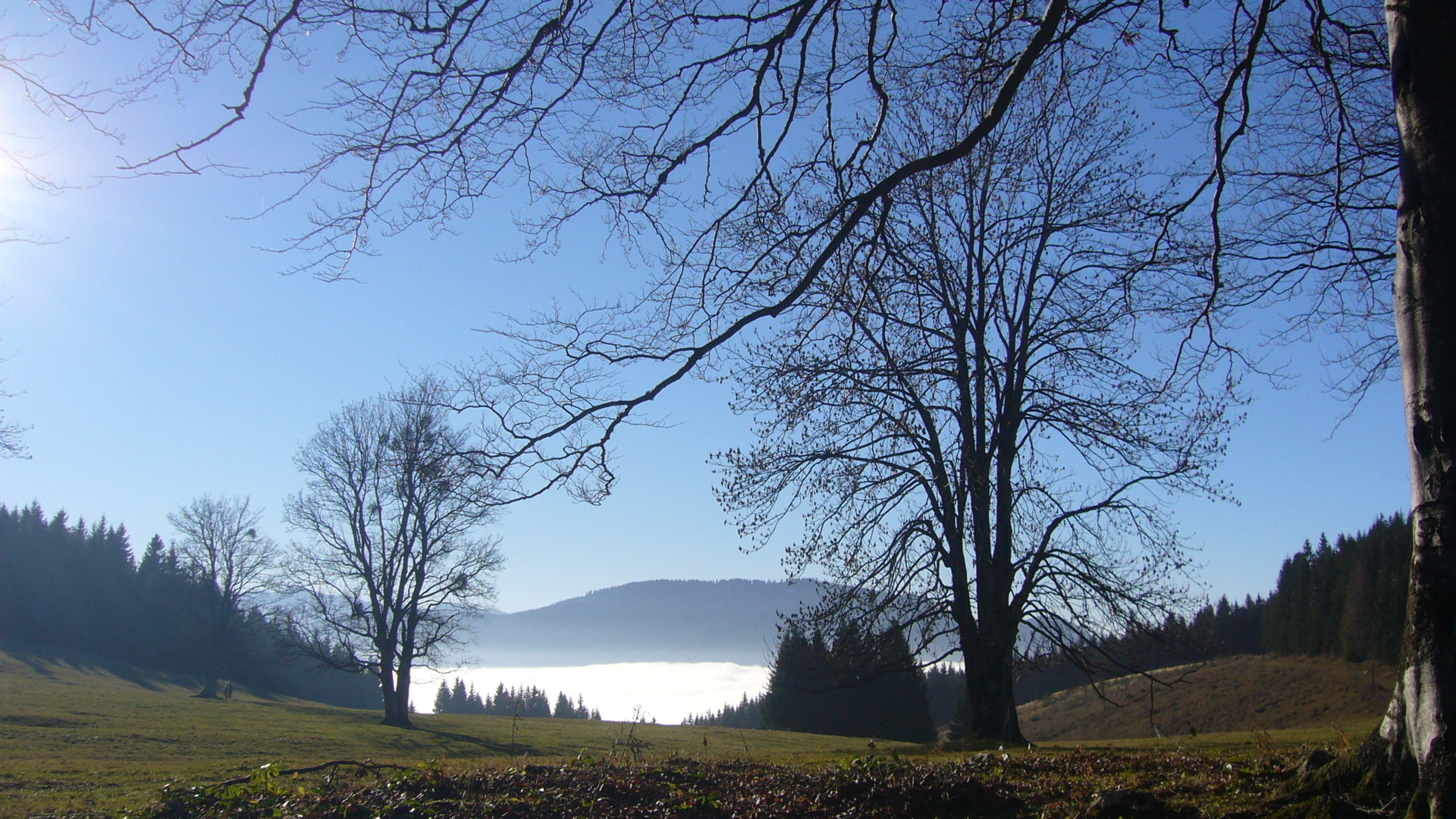 around scheibbs, austria, dec06